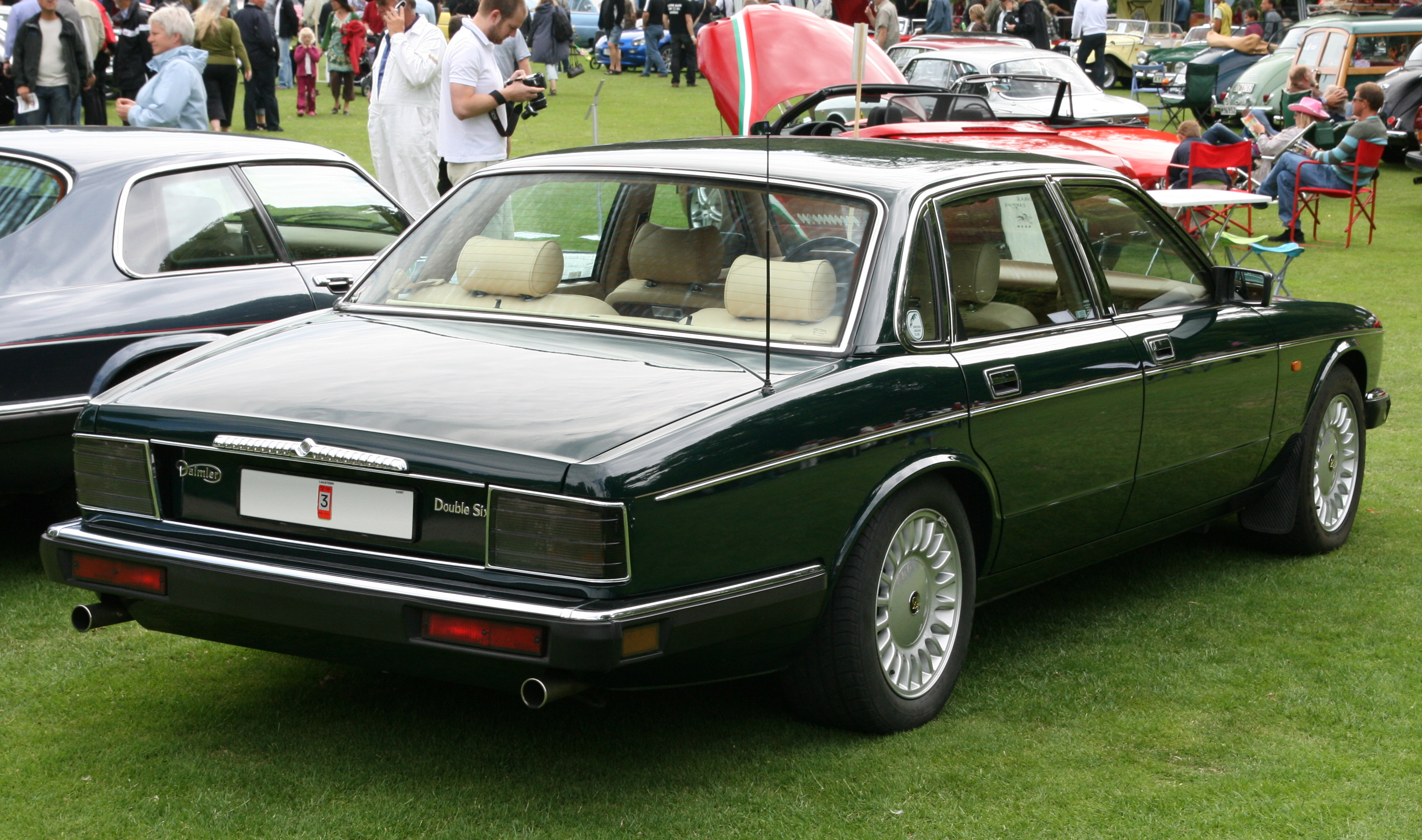 Rear right view of a 1994 Daimler Double Six in British racing green paint parked at the 2008 Nostalgia Festival auto show in Ronneby, Sweden.